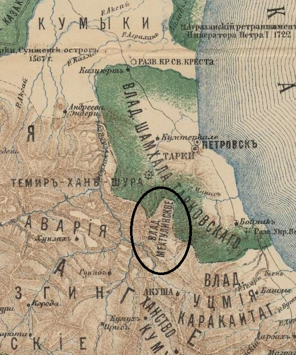 Mehtula Khanate on the map of the Caucasian krai, 1801-1813